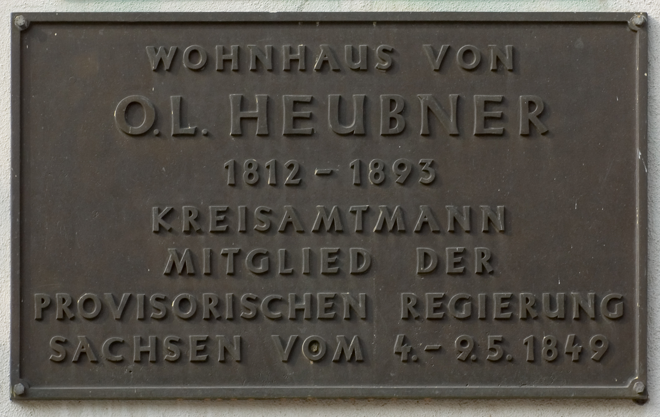 Otto Leonhard Heubner, plaque in Freiberg, Heubnerstraße